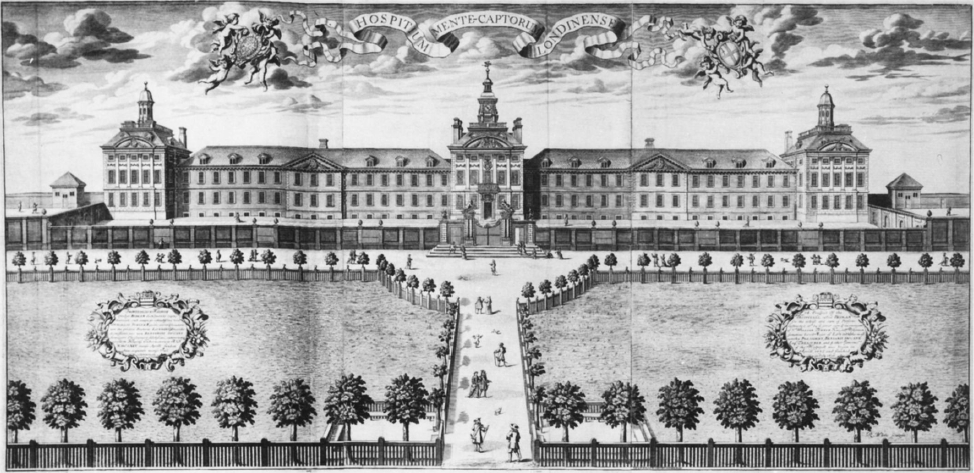 Engraving by Robert White of the new Bethlem Hospital designed by Robert Hooke and built at Moorfields, outside of the City of London in 1676.